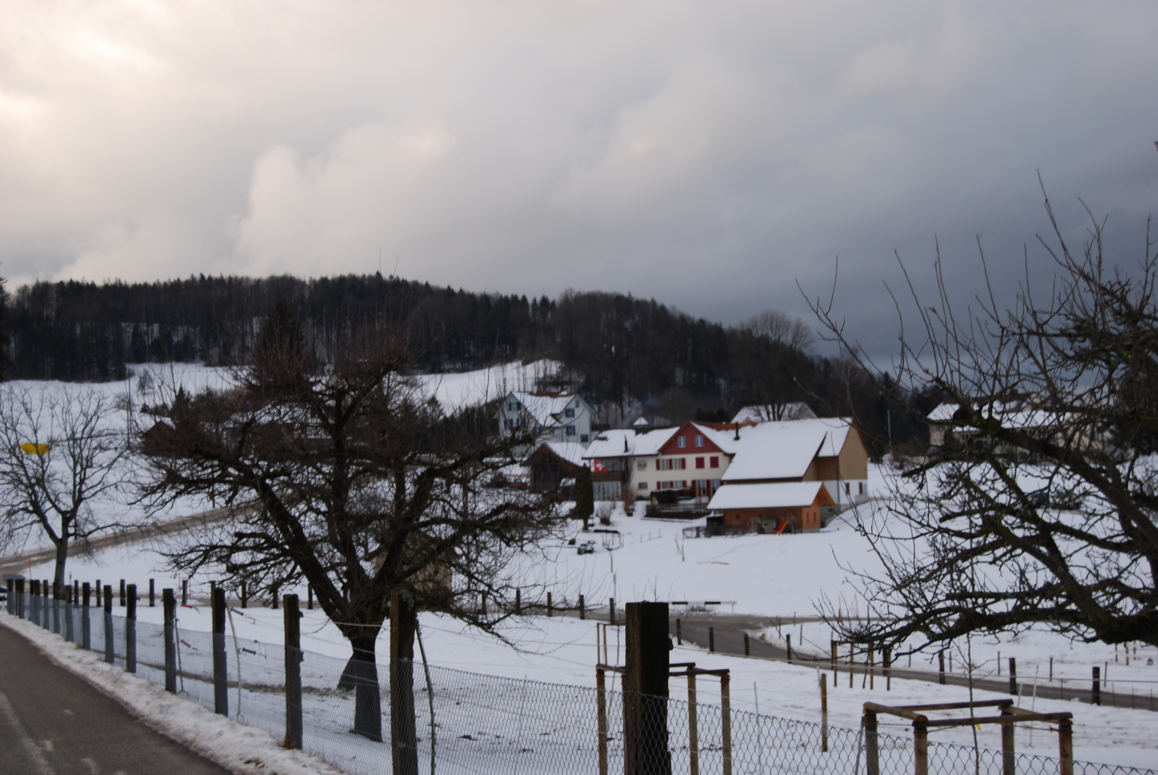 Tiefenstein, municipality of Hofstetten, canton of Zürich, SwitzerlandEsperanto: Tiefenstein, komunumo Hofstetten, Kantono Zuriko, Svislando